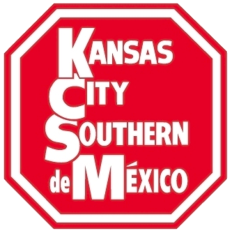 Logo of the Kansas City Southern de México, a railway company.